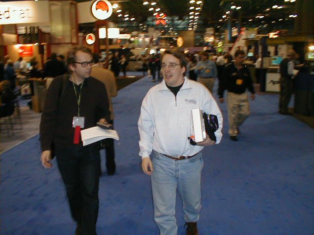 Linus Torvalds at Linuxworld 2000 in NewYork City.